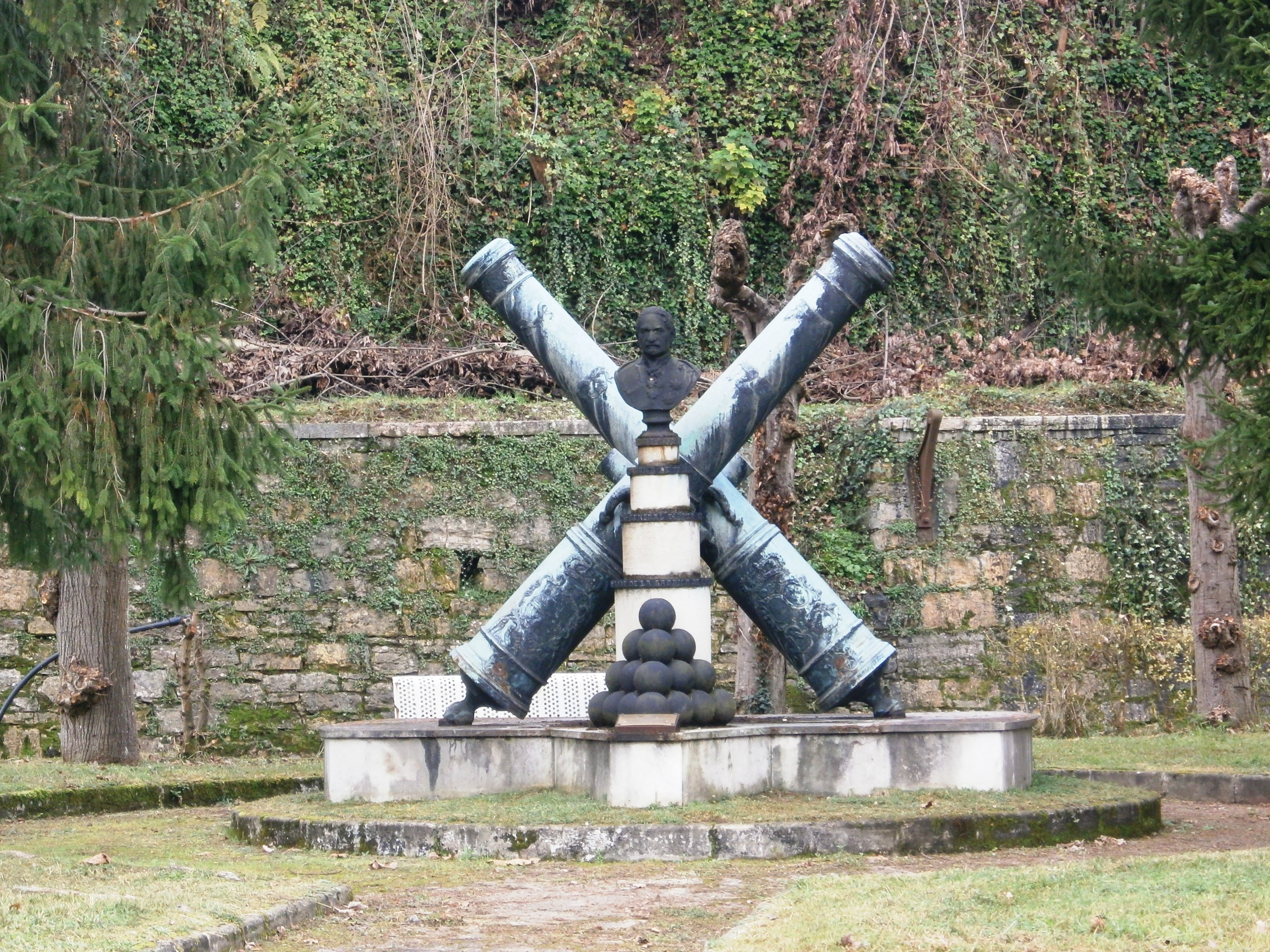 Fábrica de armas en Trubia-Asturias